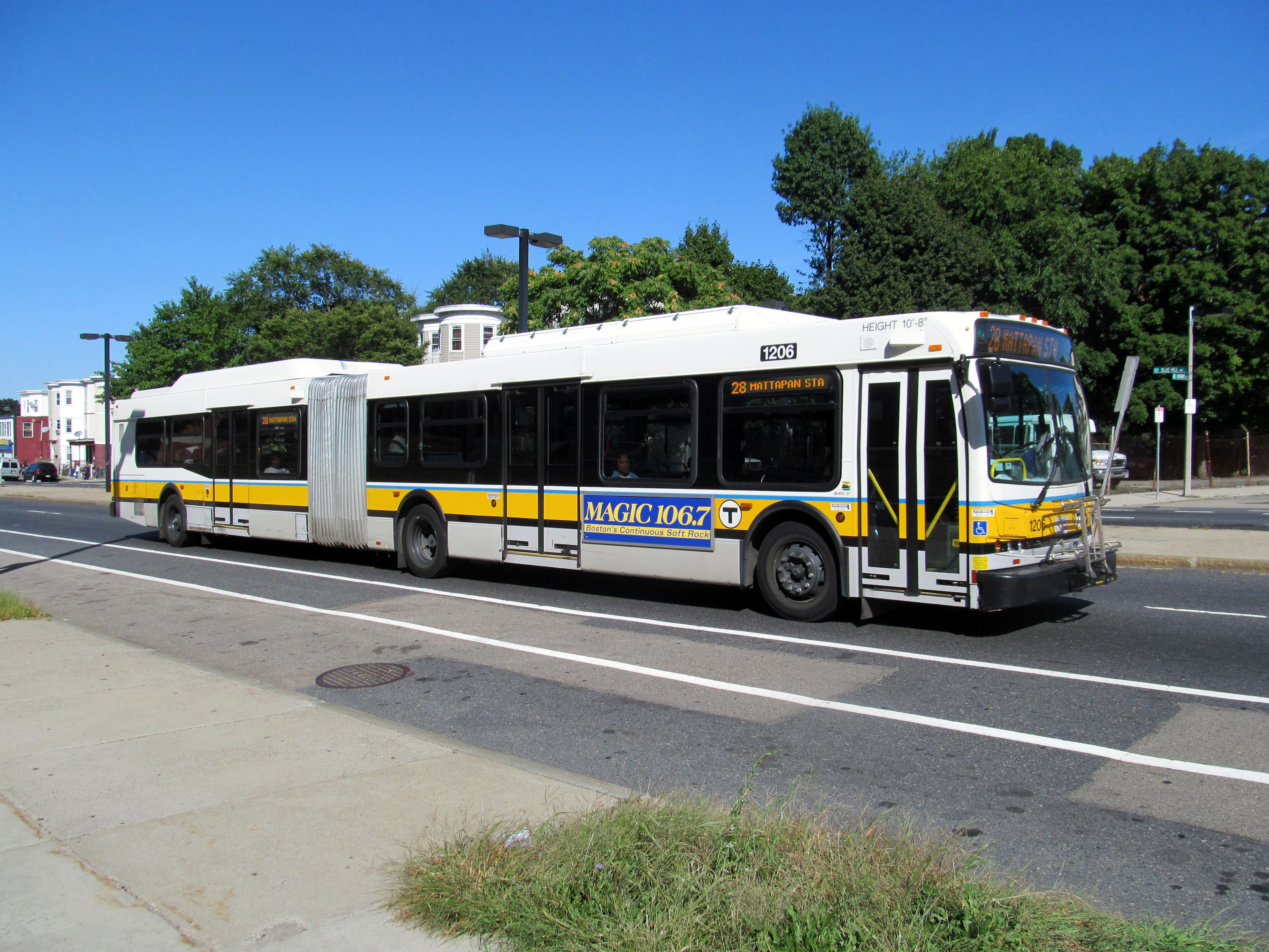 An MBTA bus on Route #28 on Blue Hill Avenue, near Clarkwood Street in Mattapan, Boston.